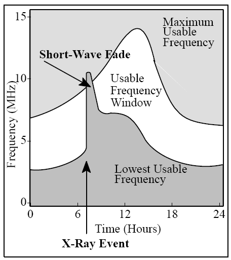 The usage frequency window for radio propagation lies between the lowest and maximum usable frequencies. When the window closes, as shown here, a shortwave fade occurs.